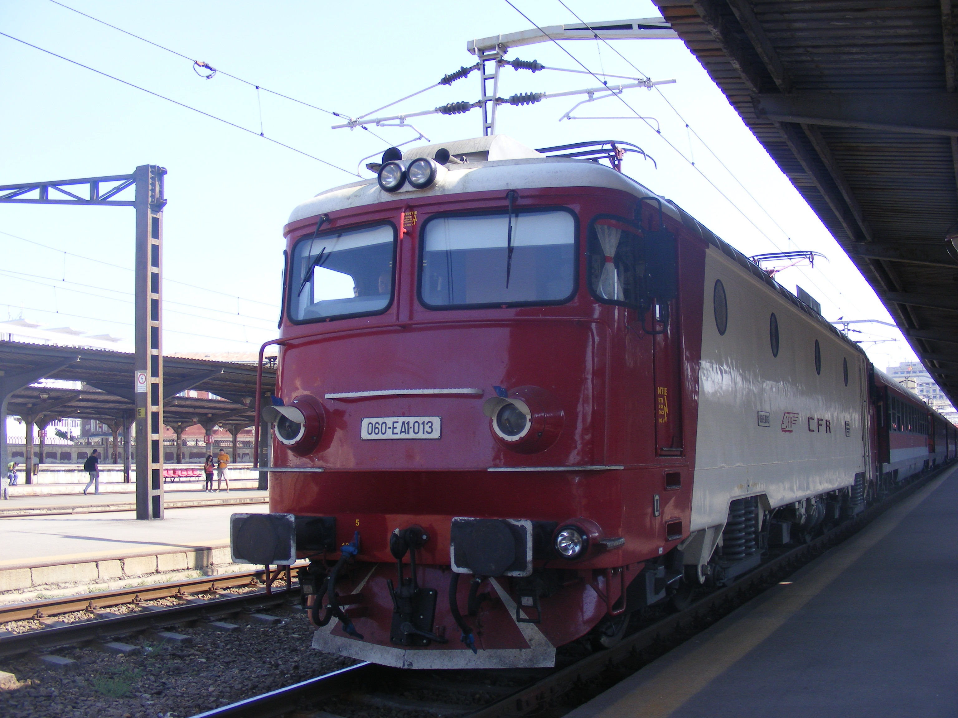 CFR 060-EA1-013 in Gara de Nord with Euronight 346 "Dacia"